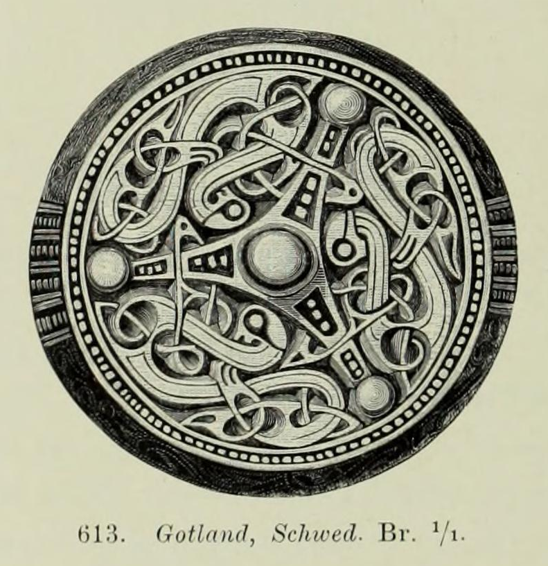 Bronze broach from the Iron Age, found on Gottland, Sweden